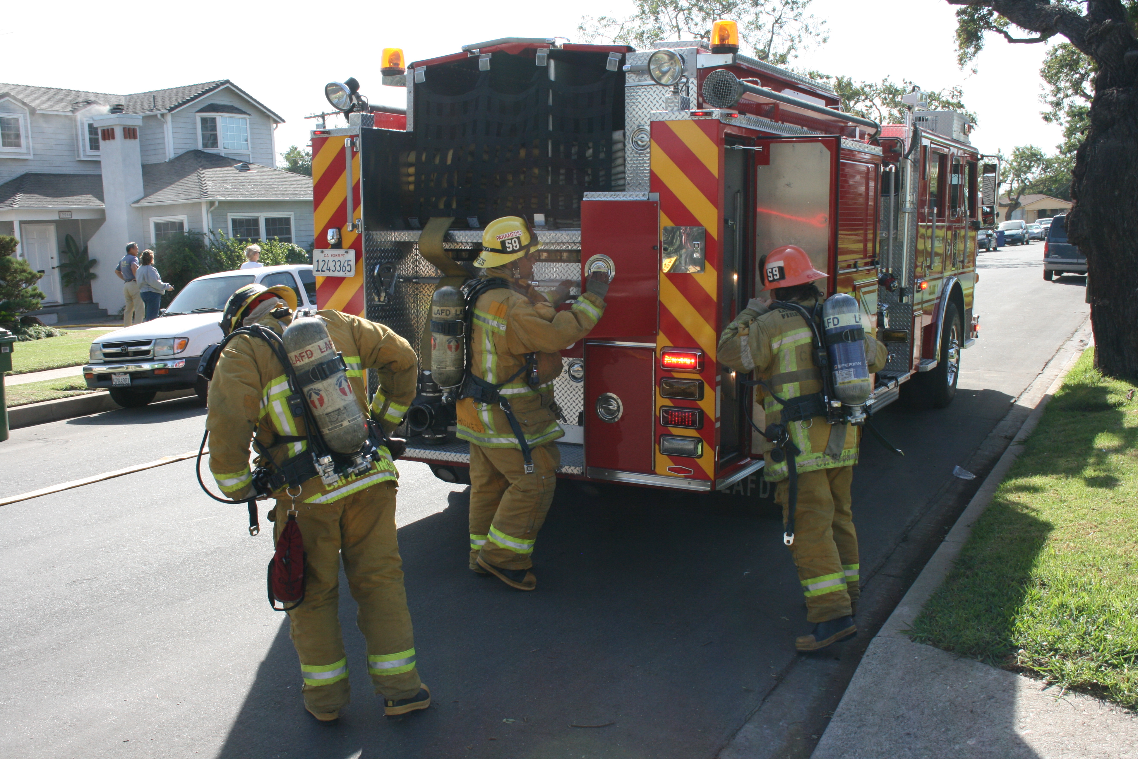 Los Angeles City Fire Department firefighters putting on their gear in preparation to fight a house fire in Mar Vista, Westside Los Angeles.